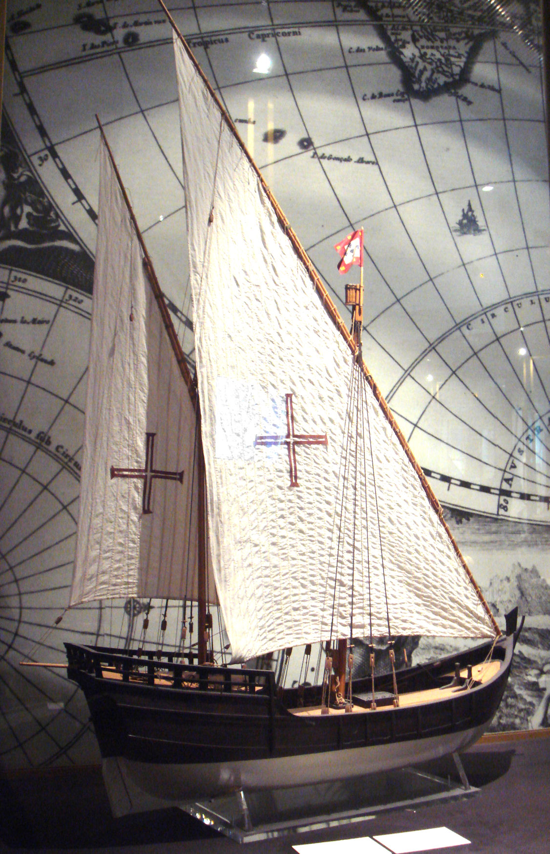 A model of a Portuguese caravel from the collection of the Musée national de la Marine, Paris, France.